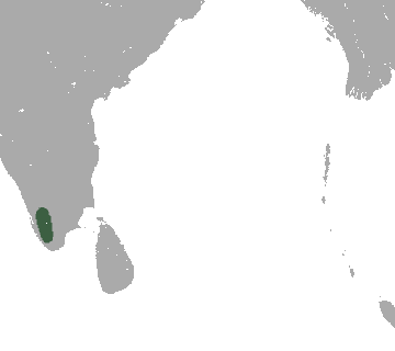 Salim Ali's Fruit Bat (Latidens salimalii) range